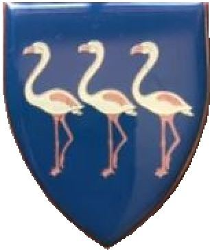 SADF era Brakpan Commando emblem